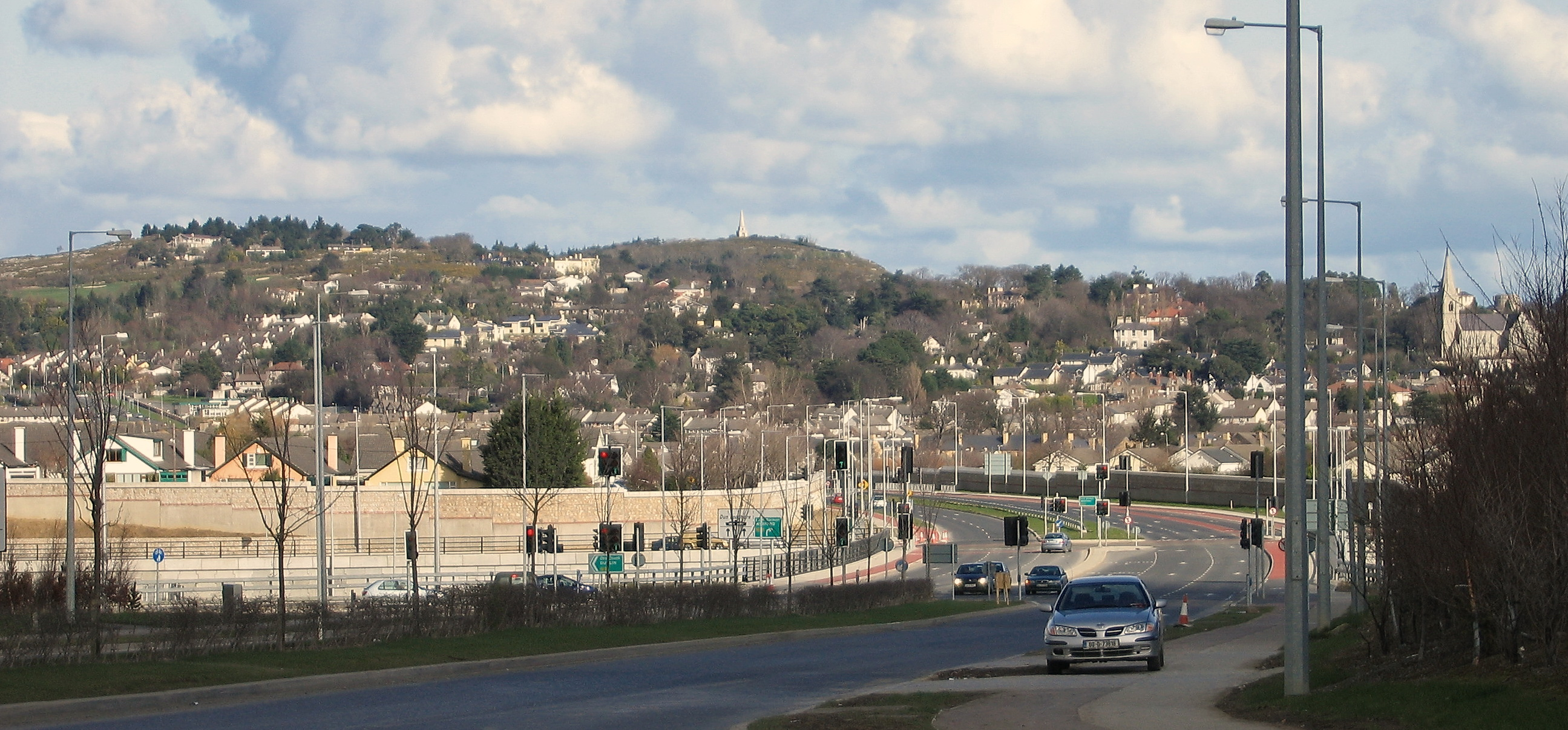 The R118 looking east with Killiney Hill in the background.